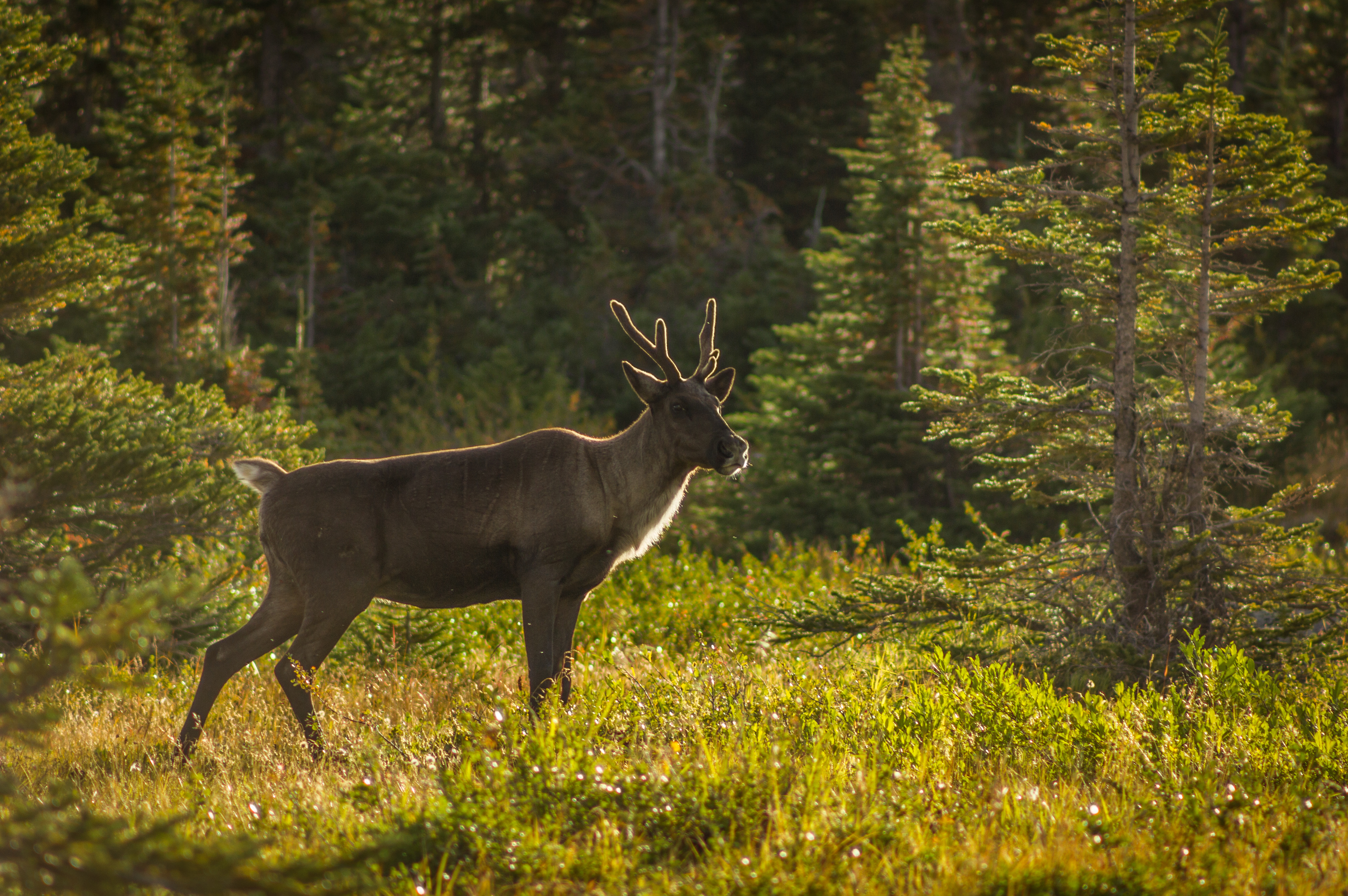 Jasper NP, Alberta, Canada.